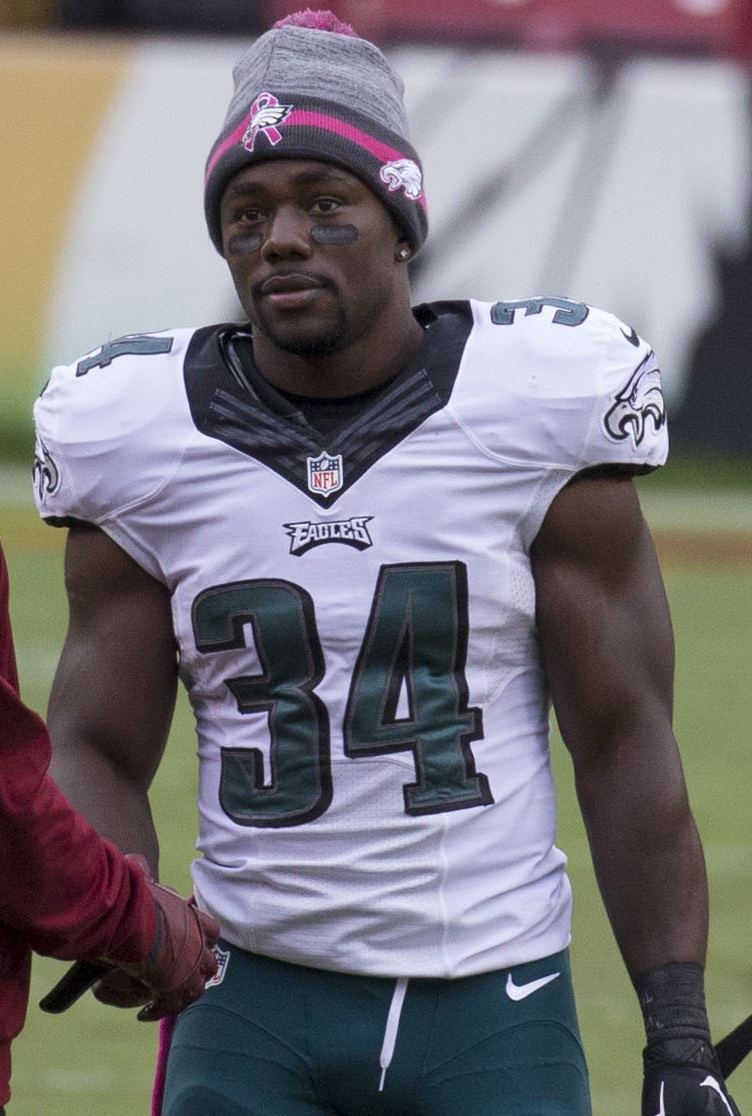 Eagles at Redskins 10/04/15